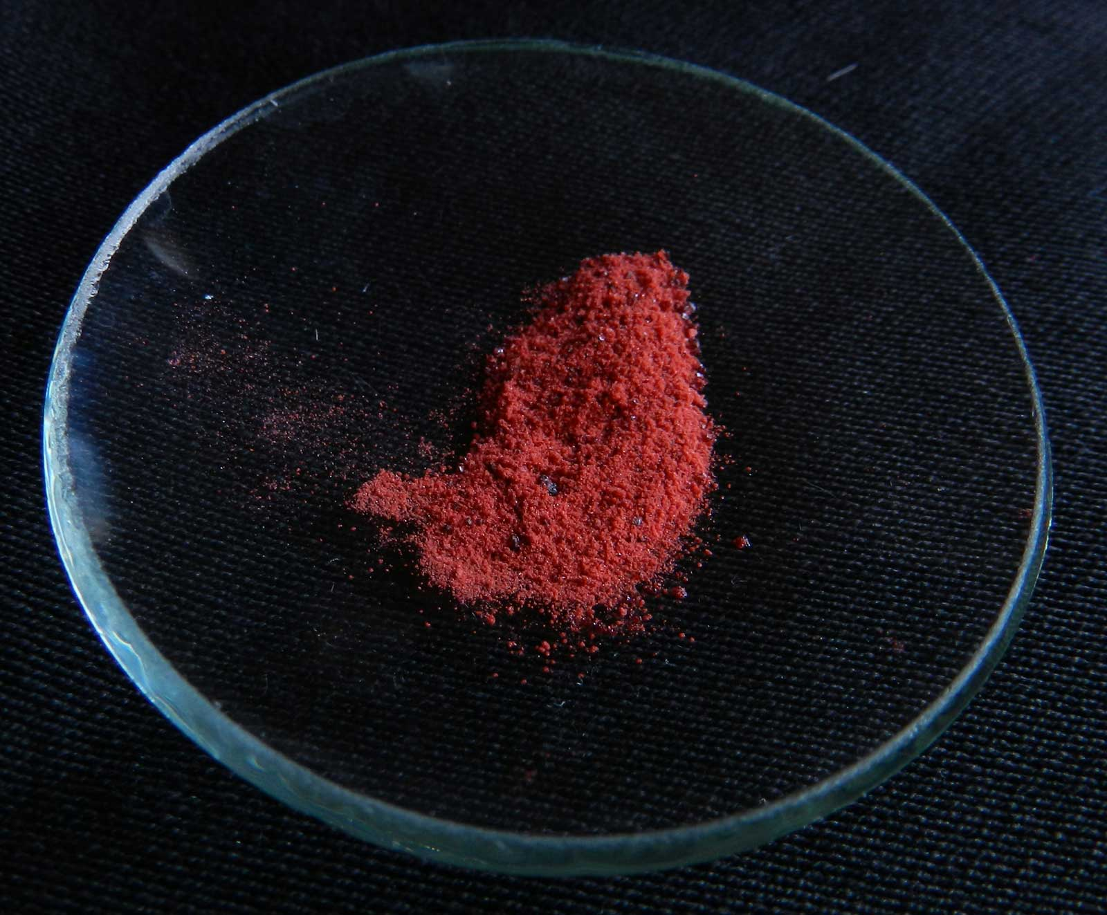 Sample of Reinecke's salt, ammonium diamminetetrathiocyanatochromate(III)